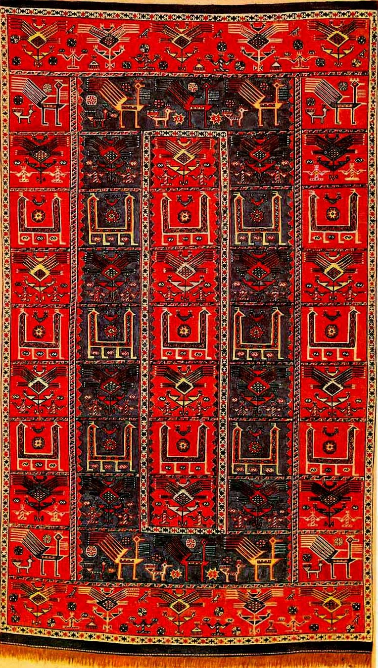 Zili rug, Baku school, XVIII c.